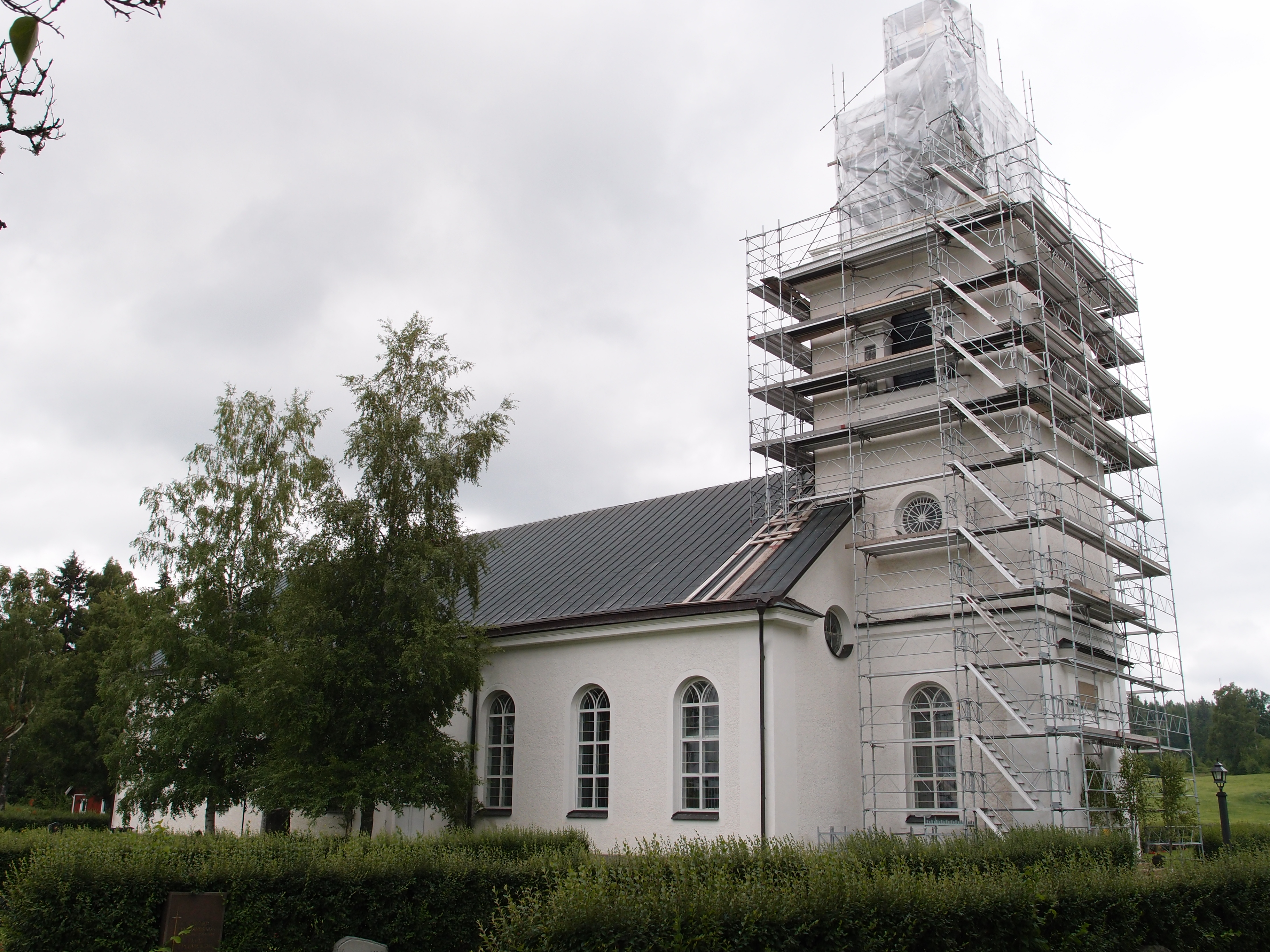 Hult Church